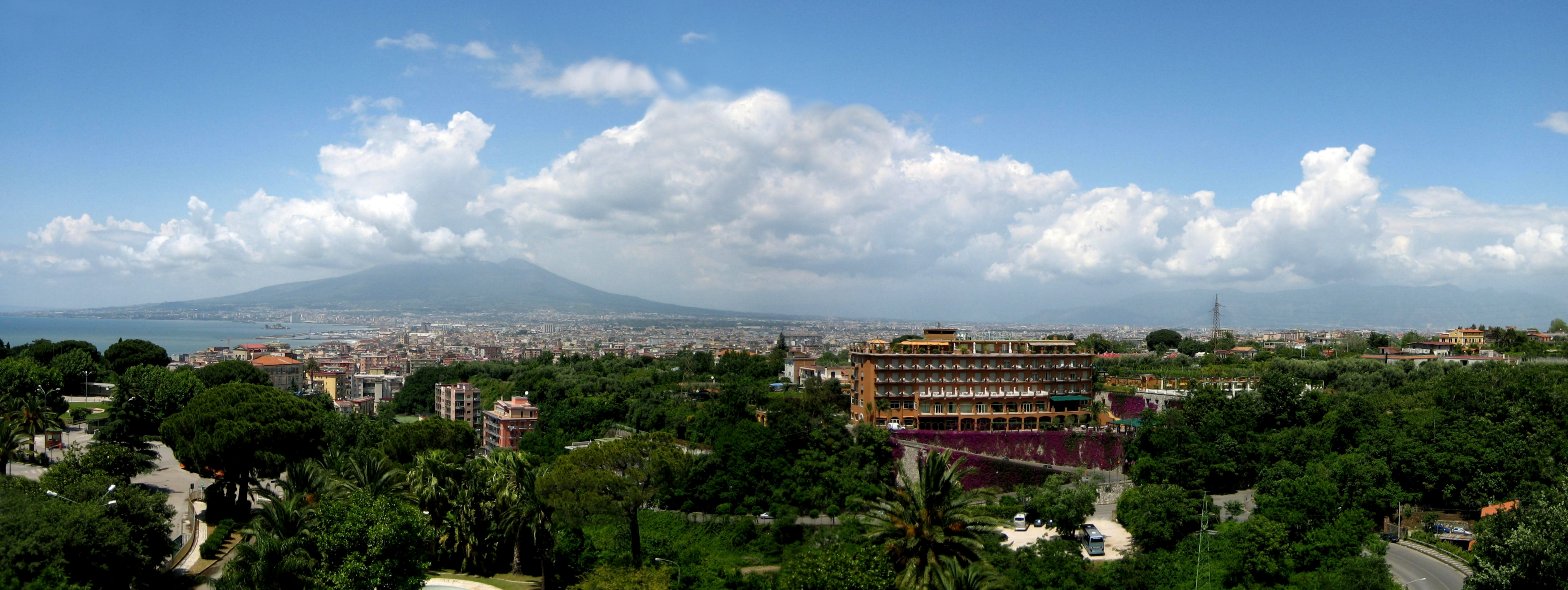 Castellammare di Stabia seen from the south with Mount Vesuvius in the background.